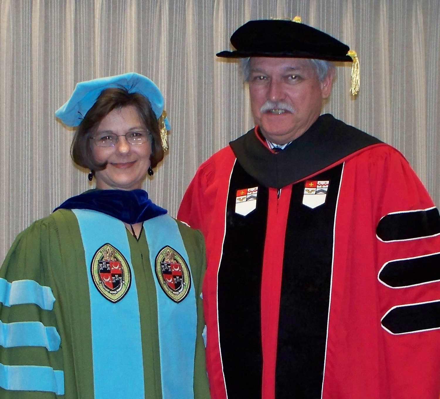 Drs Barbara Carroll Forrest and Richard David Ramsey at Southeastern commencement 2010-12-11